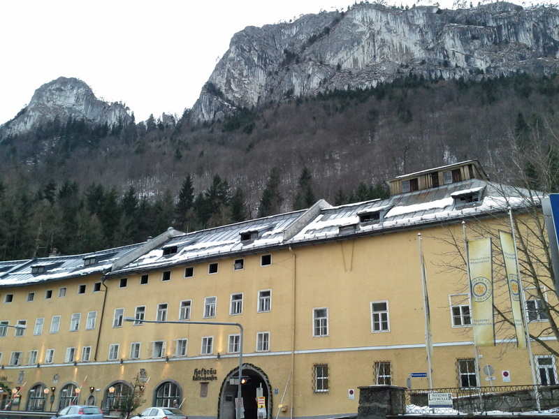 Ansicht